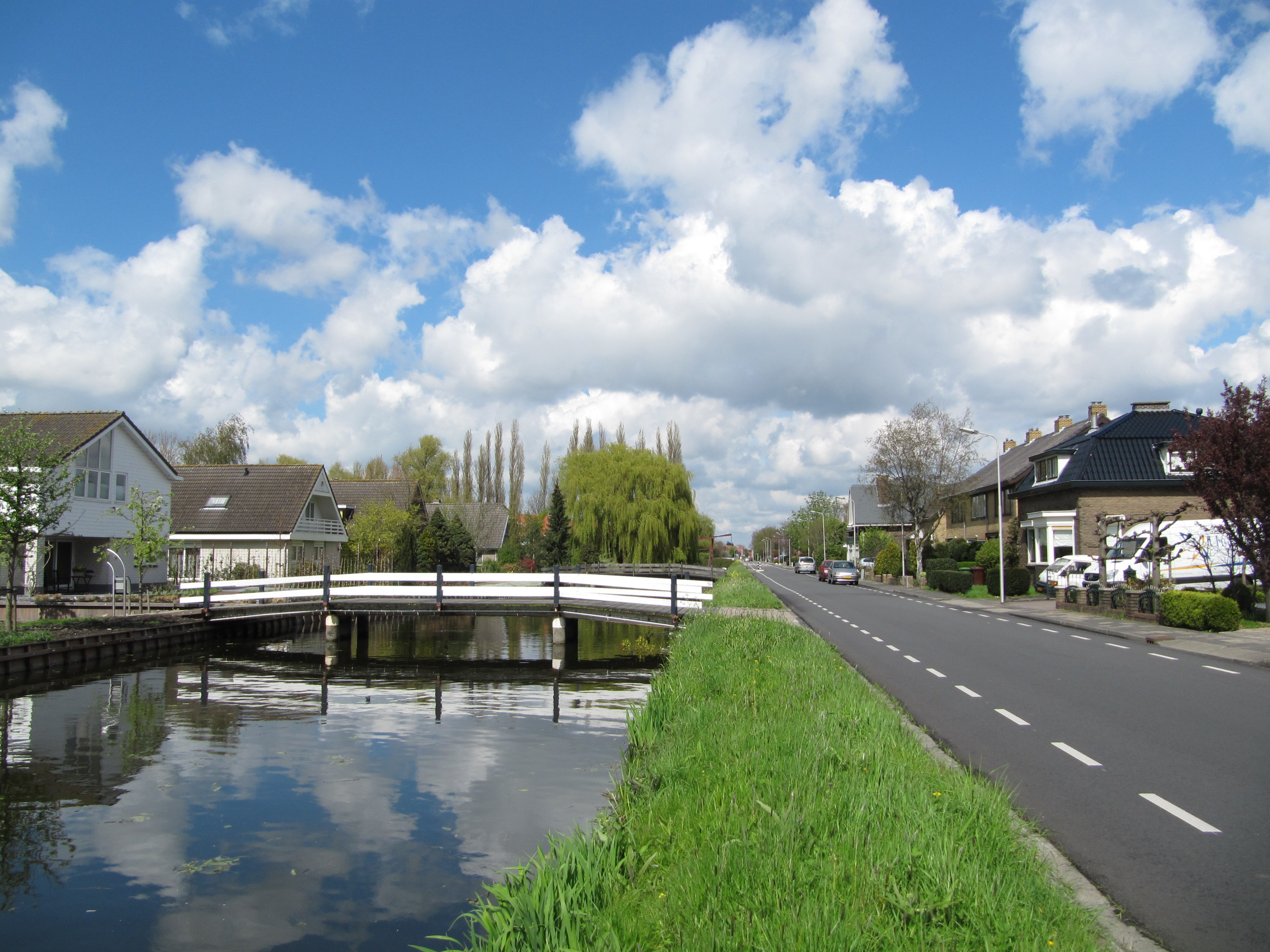 Rodenrijse vaart